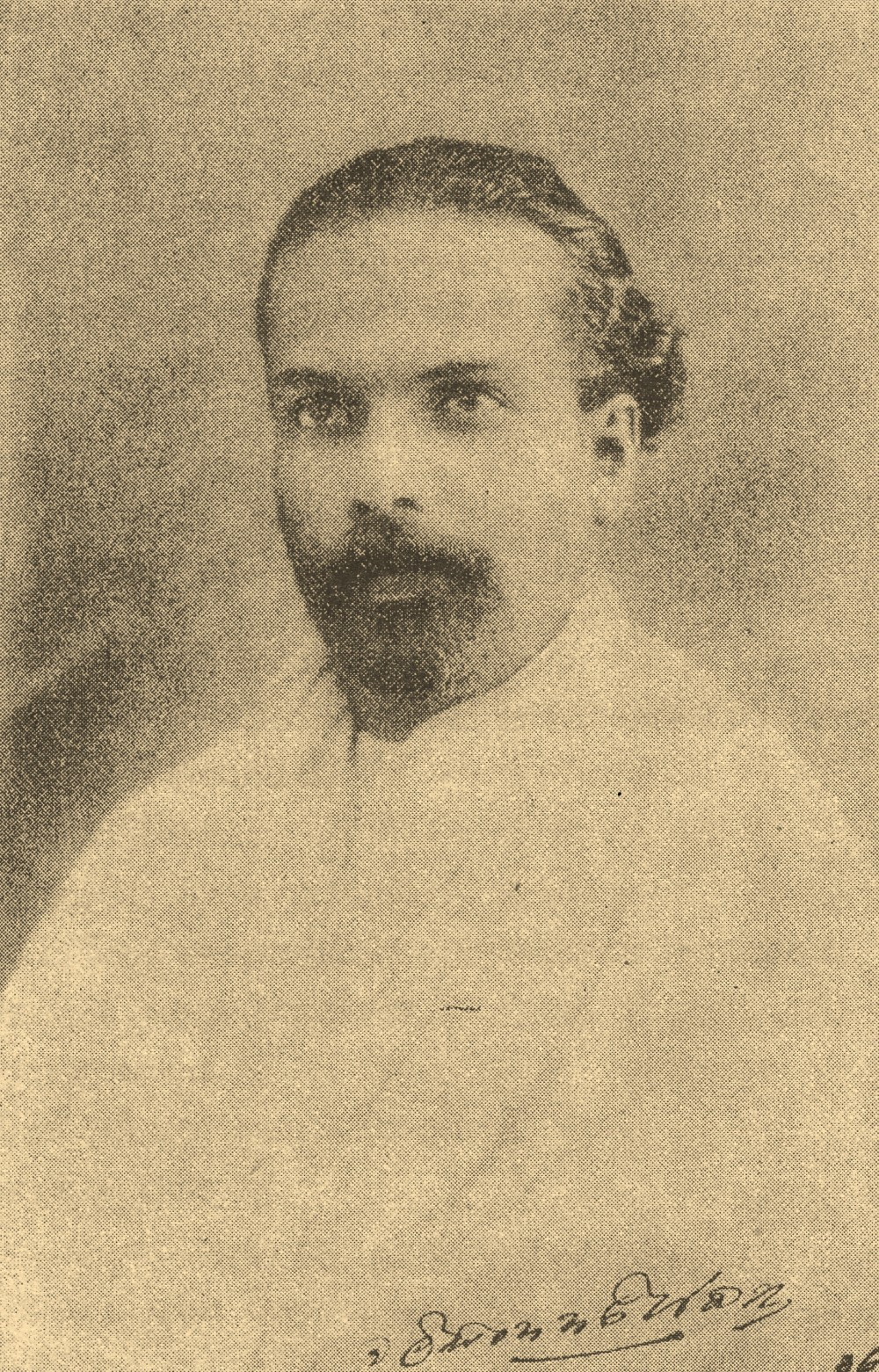 Photograph of late Ceylonese (Sri Lankan) Social Reformer, Historian, Author and Revivalist of Sri Lankan Buddhism, Brahmachari Walisingha Harischandra (1876-1913)